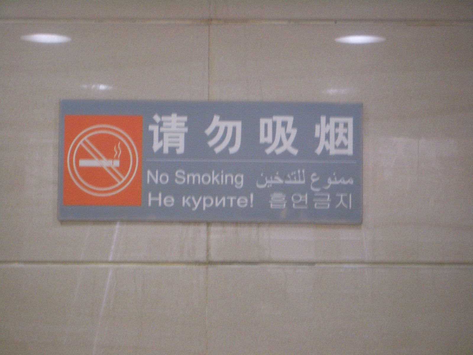 In the garment discrict of Guangzhou (Zhanqian Lu and around, just south of the main train station). A huge ungerground mall, under Zhanqian Lu and around it, bills itself as Yazhou Shouxi Dixia Fuzhuang Zhanliu Zhongxin, or, in English, "The Top Clothes Underground Wholesale Centre of Asia"